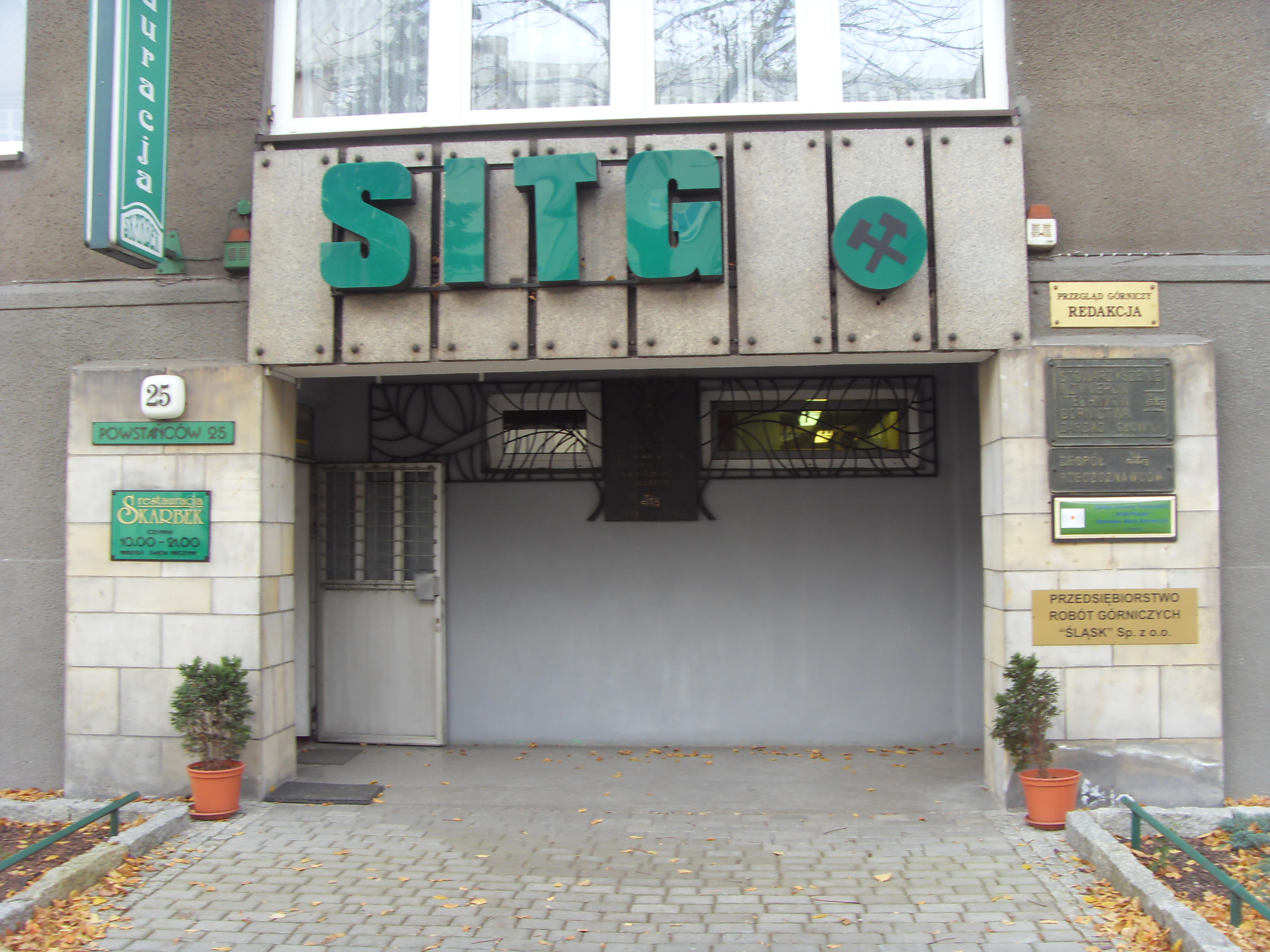 Stowarzyszenie Inżynierów i Techników Górnictwa in Katowice